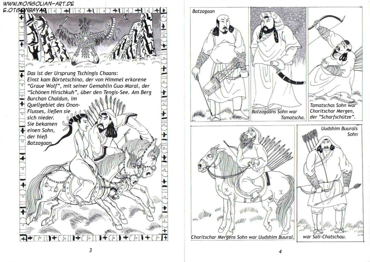 Comic: The Secret History of the Mongols